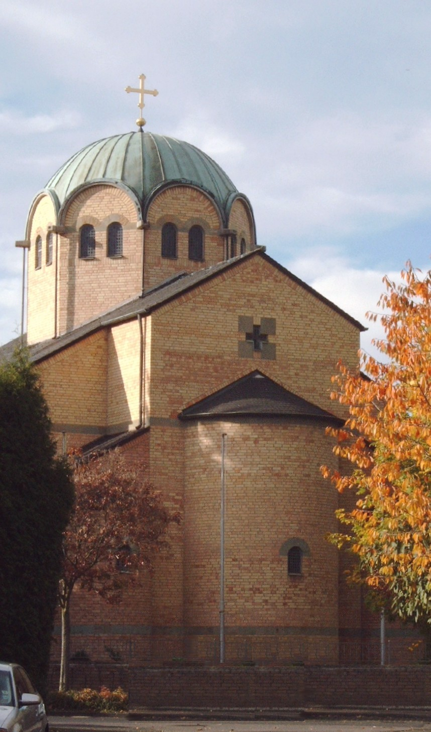 The Greek Orthodox Metropolitan Cathedral Hagia Trias in Bonn in the locality of Limperich.